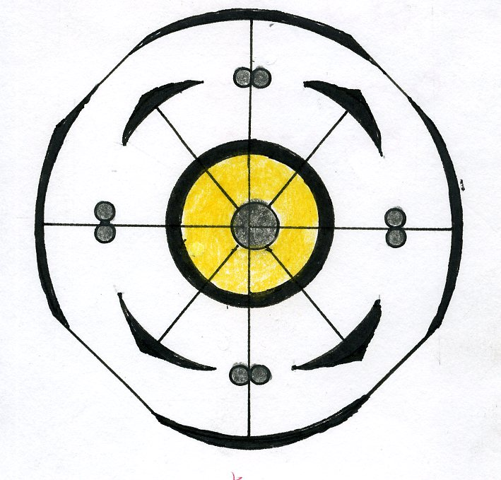 Euonymus floral diagram